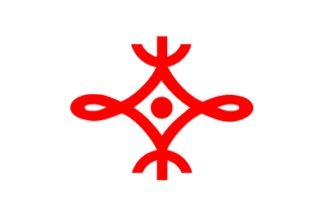 Flag of Taishi Hyogo